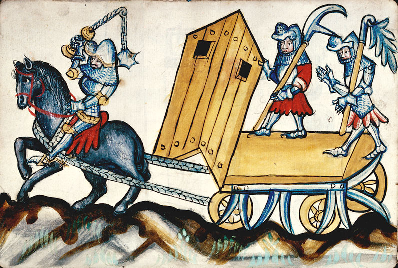 A wheeled war machine carrying two soldiers and drawn by a knight on horseback holding a flail.